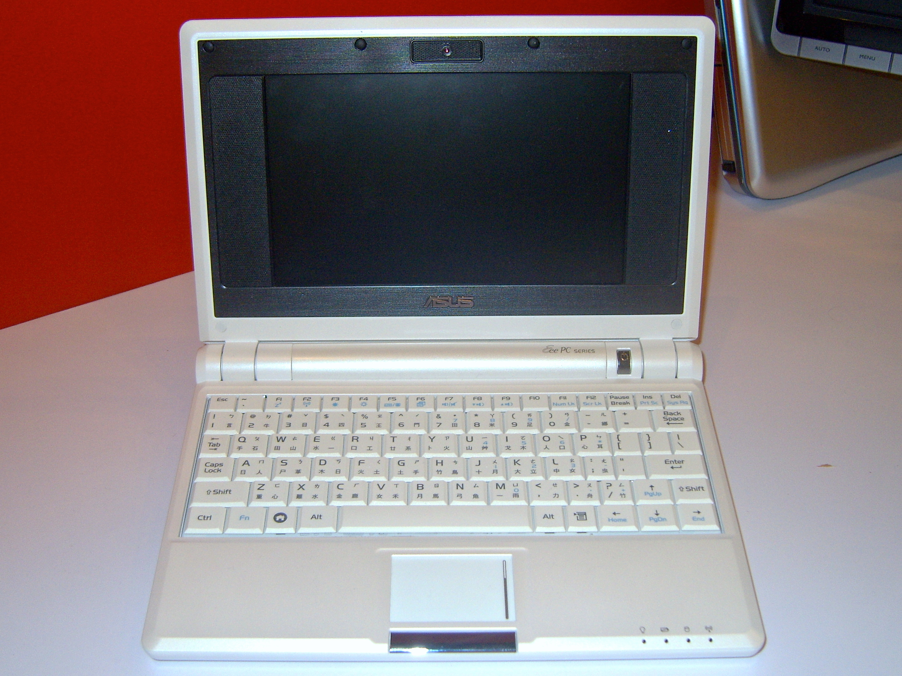 2008 Taiwan Excellence Awards: ASUS Eee PC 4G.